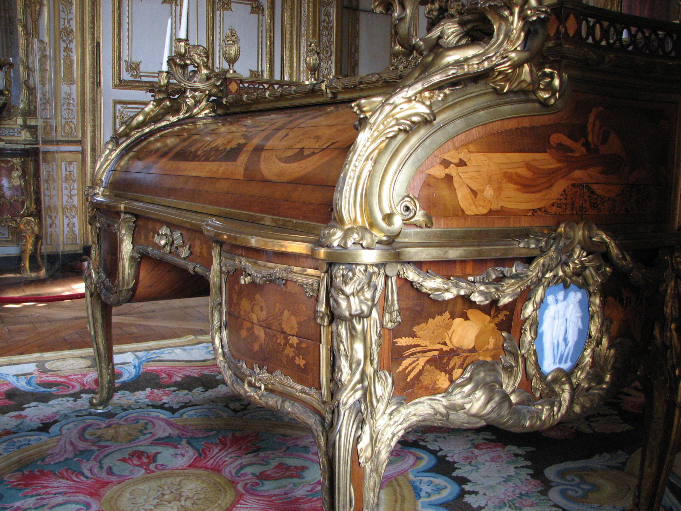 Bureau du Roi (King's desk) or Louis XV's roll-top secretary